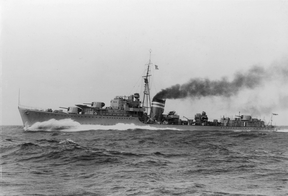 View of HMS Jervis on sea trials, 1939 (TWAM ref. DS.HL/2/100/17). She was a J-Class destroyer and the sister ship of HMS Kelly. This image is taken from an album produced by the world famous shipbuilding and engineering firm of Hawthorn Leslie. The album gives us a fascinating glimpse of life at the company's shipyard at Hebburn from the late 1930s to the 1960s. There are remarkable images of the men at work in the yard and a poignant series showing the terrible damage caused during the Second World War to HMS Kelly, one of Hawthorn Leslie's best loved ships. This particular collection of images follows the Birth and ultimate Death of a ship. From the craft and pride in its production and the joy in its performance, to the devastation and price of its destruction. A blog about this fascinating collection can been viewed here on the Tyne & Wear Archives & Museums website. (Copyright) We're happy for you to share these digital images within the spirit of The Commons. Please cite 'Tyne & Wear Archives & Museums' when reusing. Certain restrictions on high quality reproductions and commercial use of the original physical version apply though; if you're unsure please